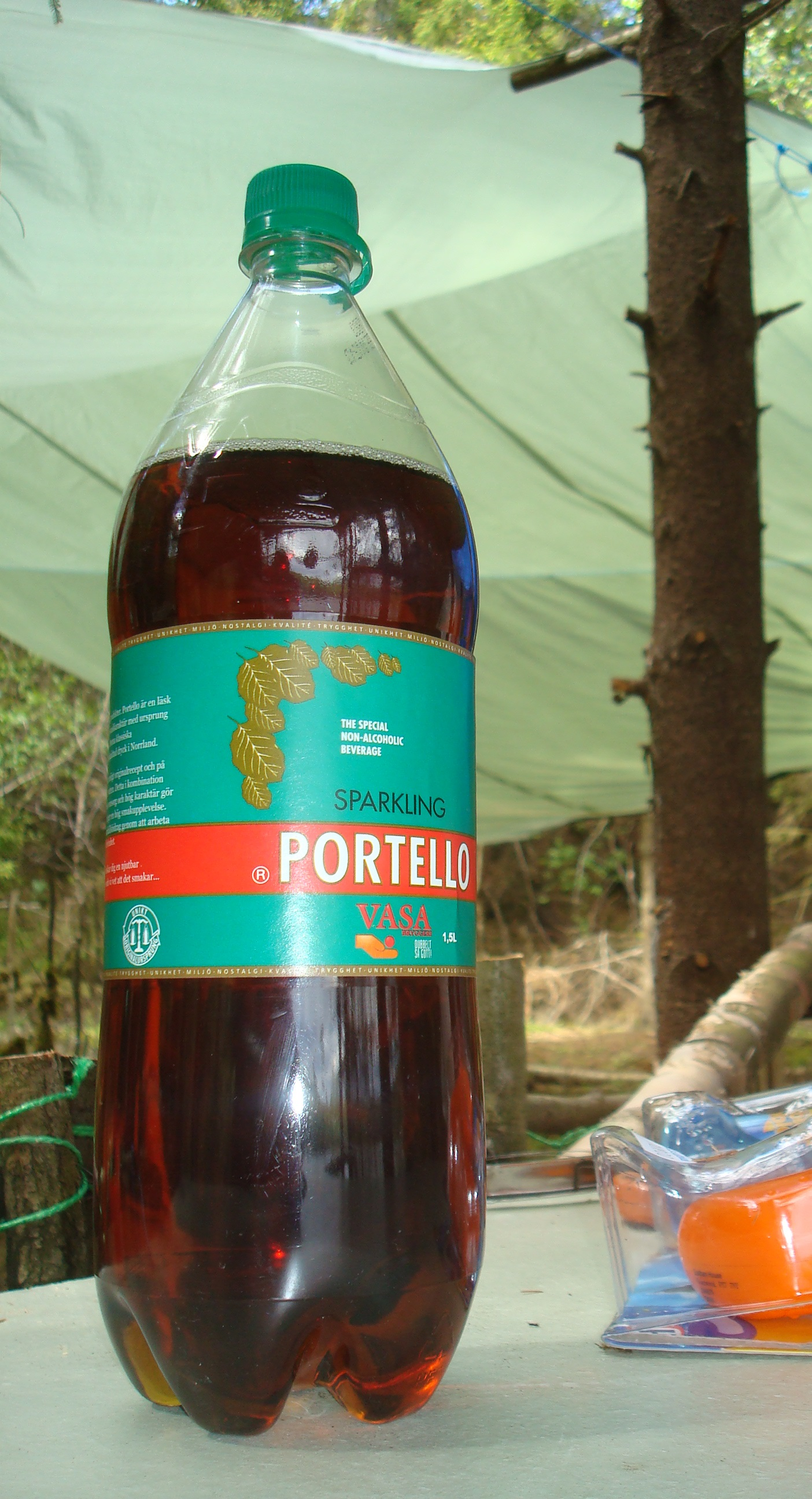 Swedish soft drink Portello